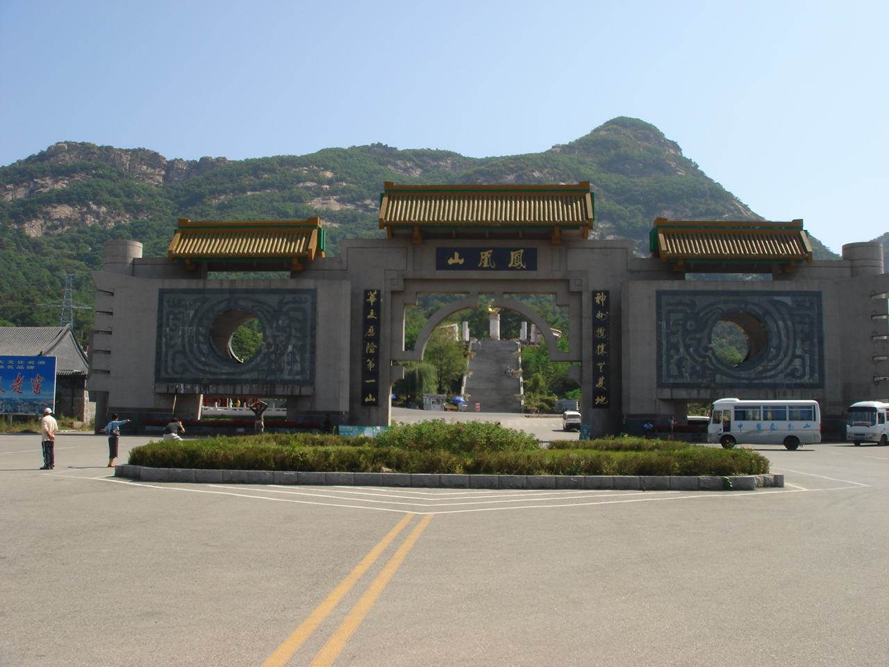 entrance of Phoenix mountain 凤凰山山门